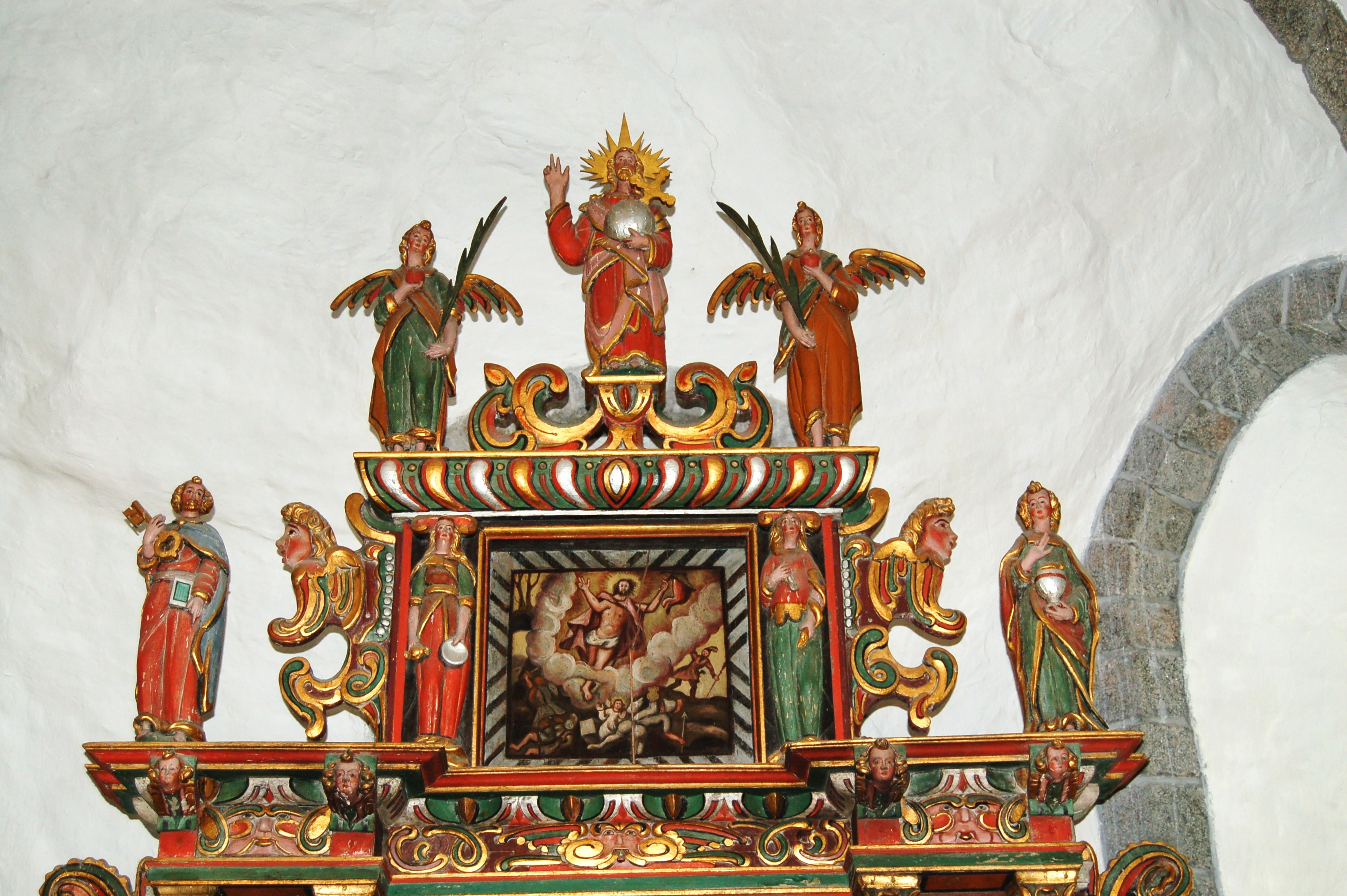 Altarpiece from Hedrum church, Larvik, Norway